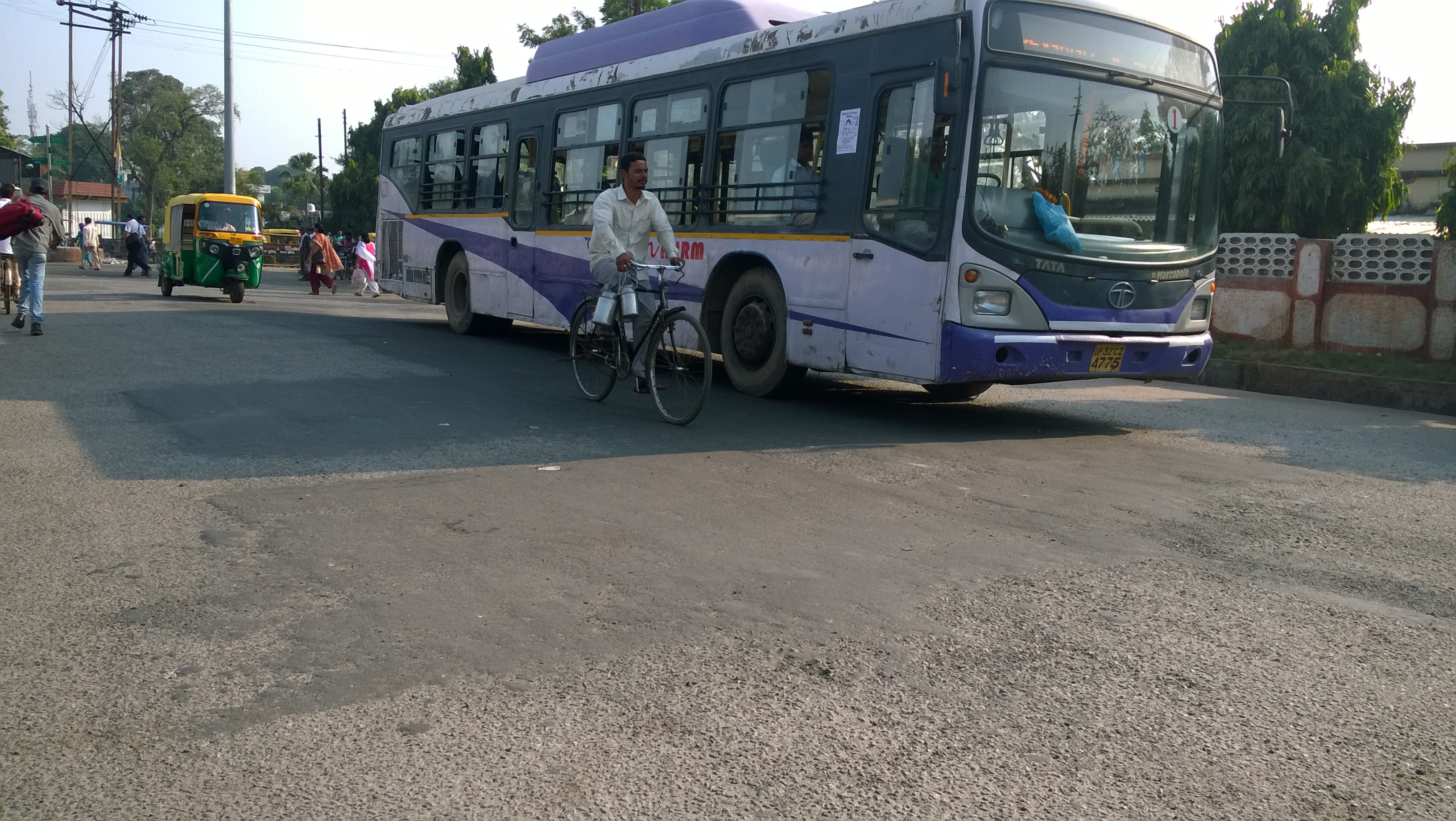 City bus service fleeing on roads of Agra